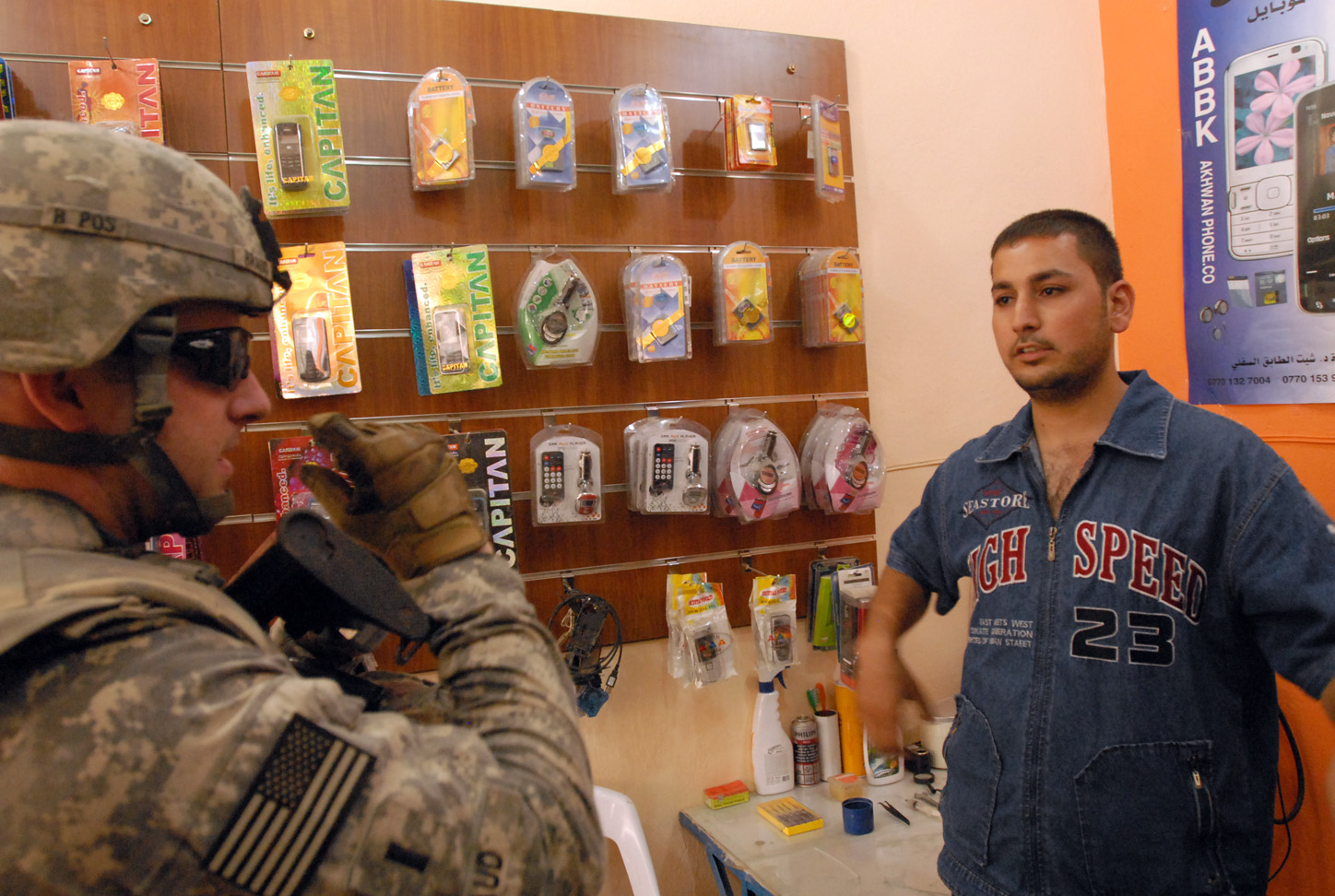 1st Lt. Daniel Braud, a Kingwood, Texas native, and platoon leader in 4th Squadron, 9th Cavalry Regiment, 2nd Brigade Combat Team, 1st Cavalry Division, checks on a cell phone store in Daquq, Iraq, July 7, which is owned by Ali Abbas Muhsin, who used a U.S.-issued micro-grant to revitalize his business. Photo Credit: Staff Sgt. Jason Douglas See more at Micro-grants assist growing economy